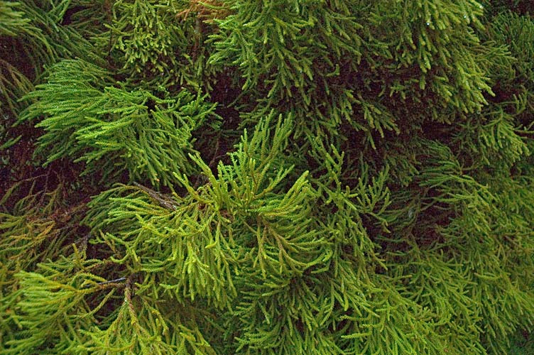 Juvenile foliage of Rimu, Dacrydium cupressinum, New Zealand.